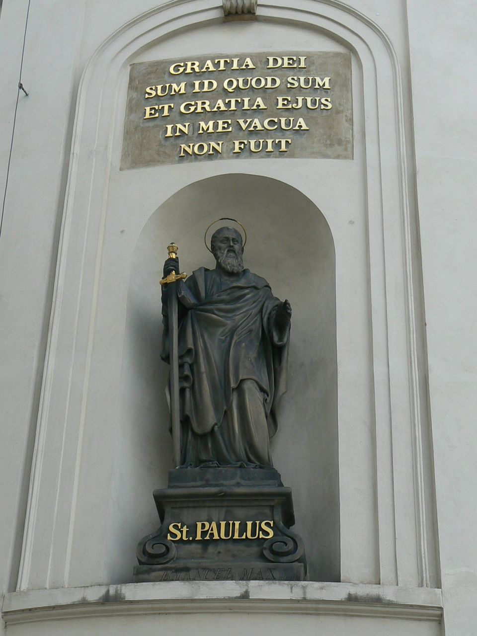 St. Paul's statue on the Holy Cross Chapel, Prague Castle (with a Latin quotation from the First Epistle to the Corinthians, 15, 10)